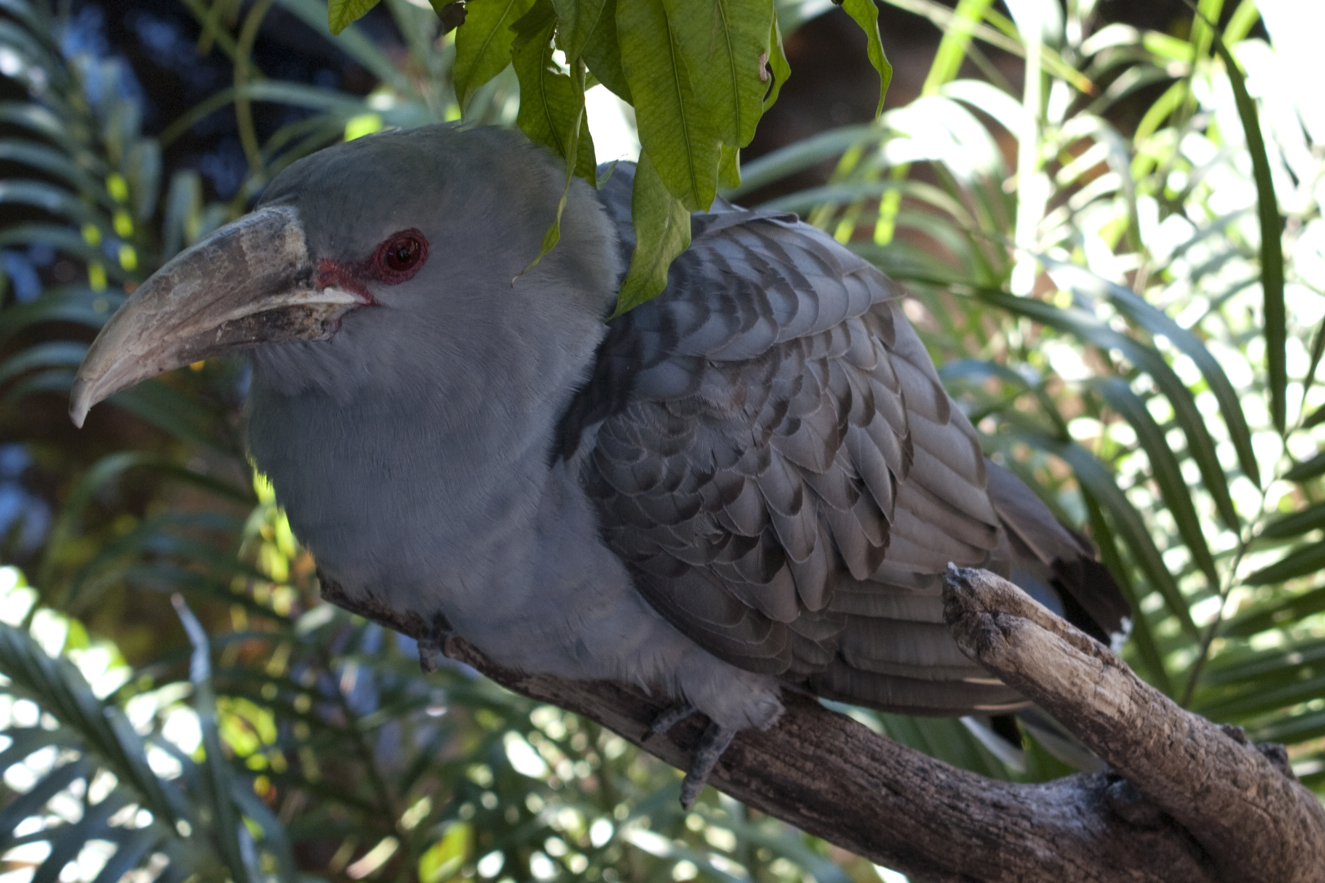 Channel-billed Cuckoo (Scythrops novaehollandiae) at the Adelaide Zoo in South Australia.